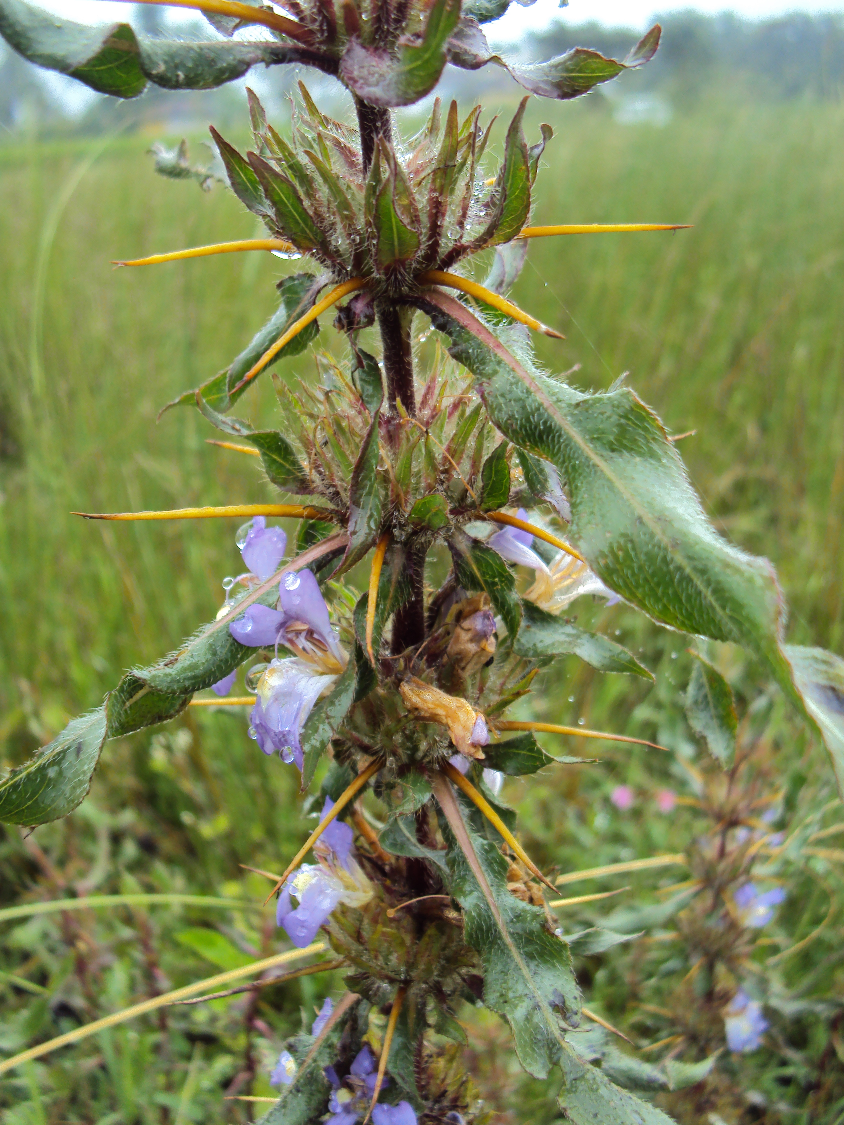 Hygrophila auriculata